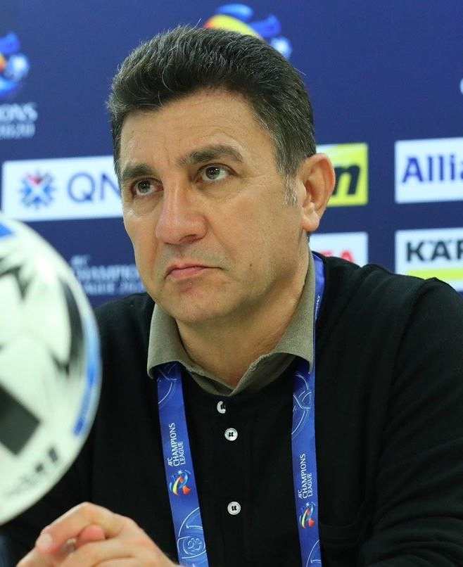 Amir Ghalenoei